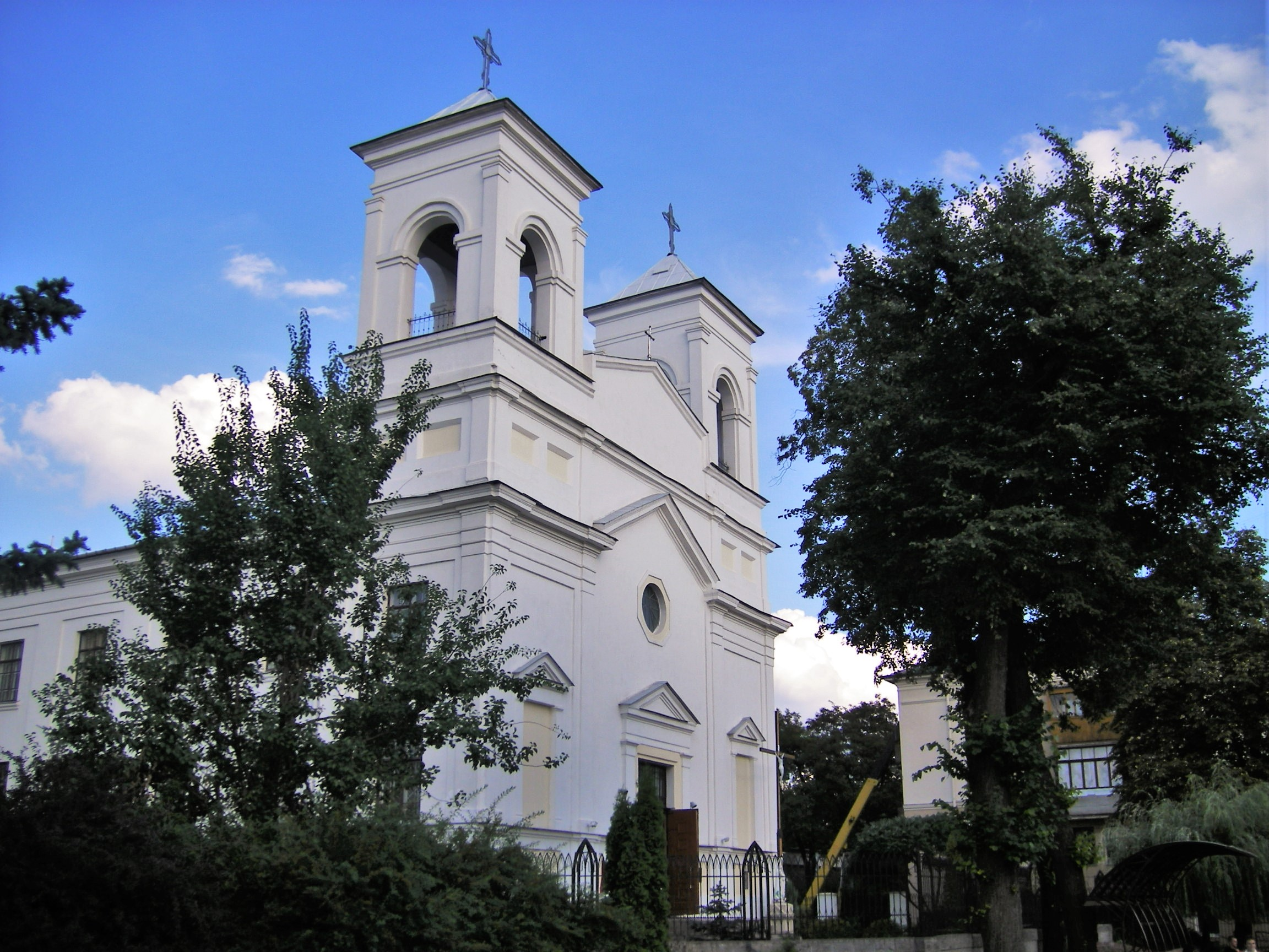 Brest, Catholic Krestovozdvizhenskyy church at the Lenin Place